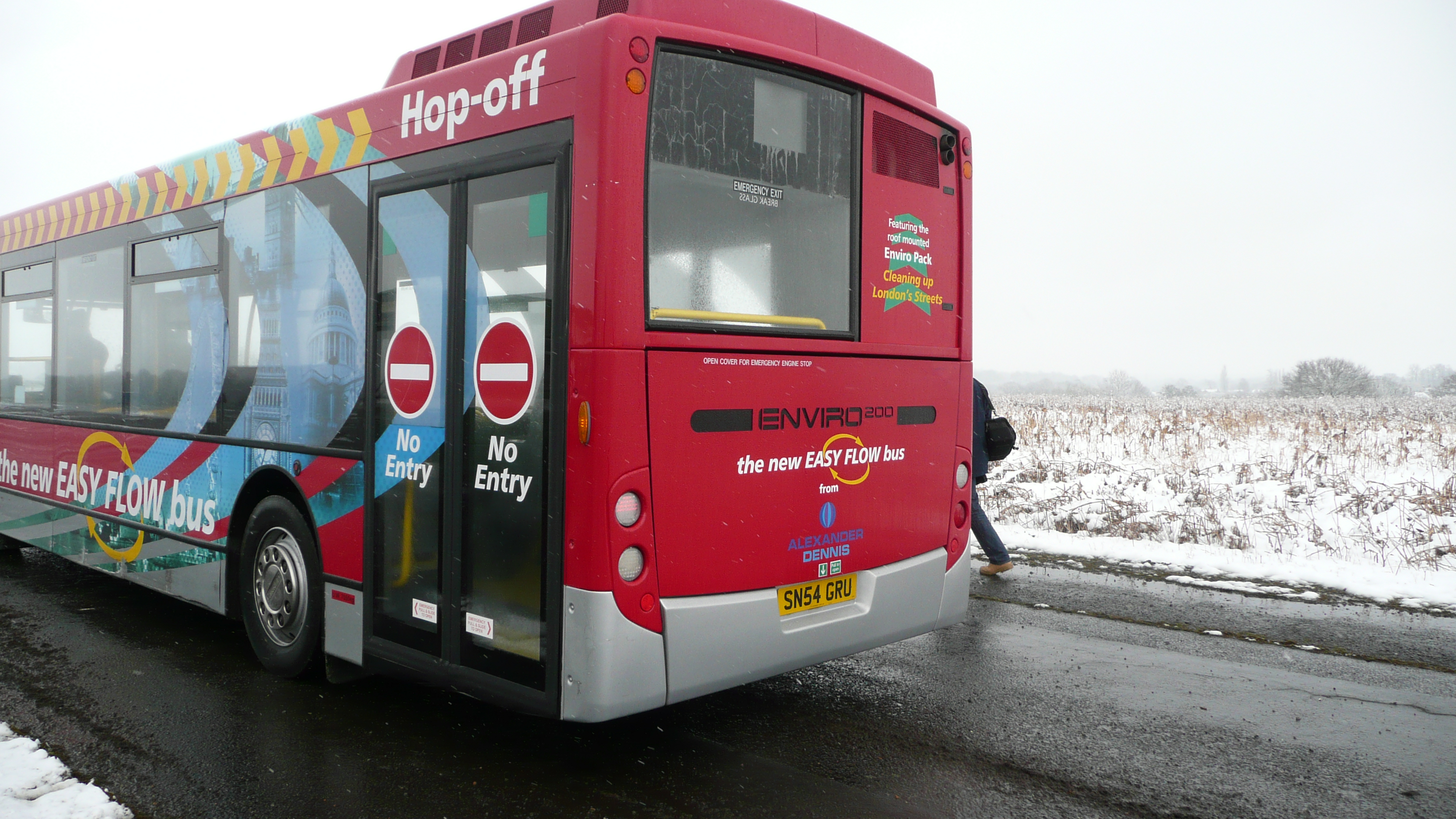 Rear view of an Enviro 200, showing the unusual door arrangement.